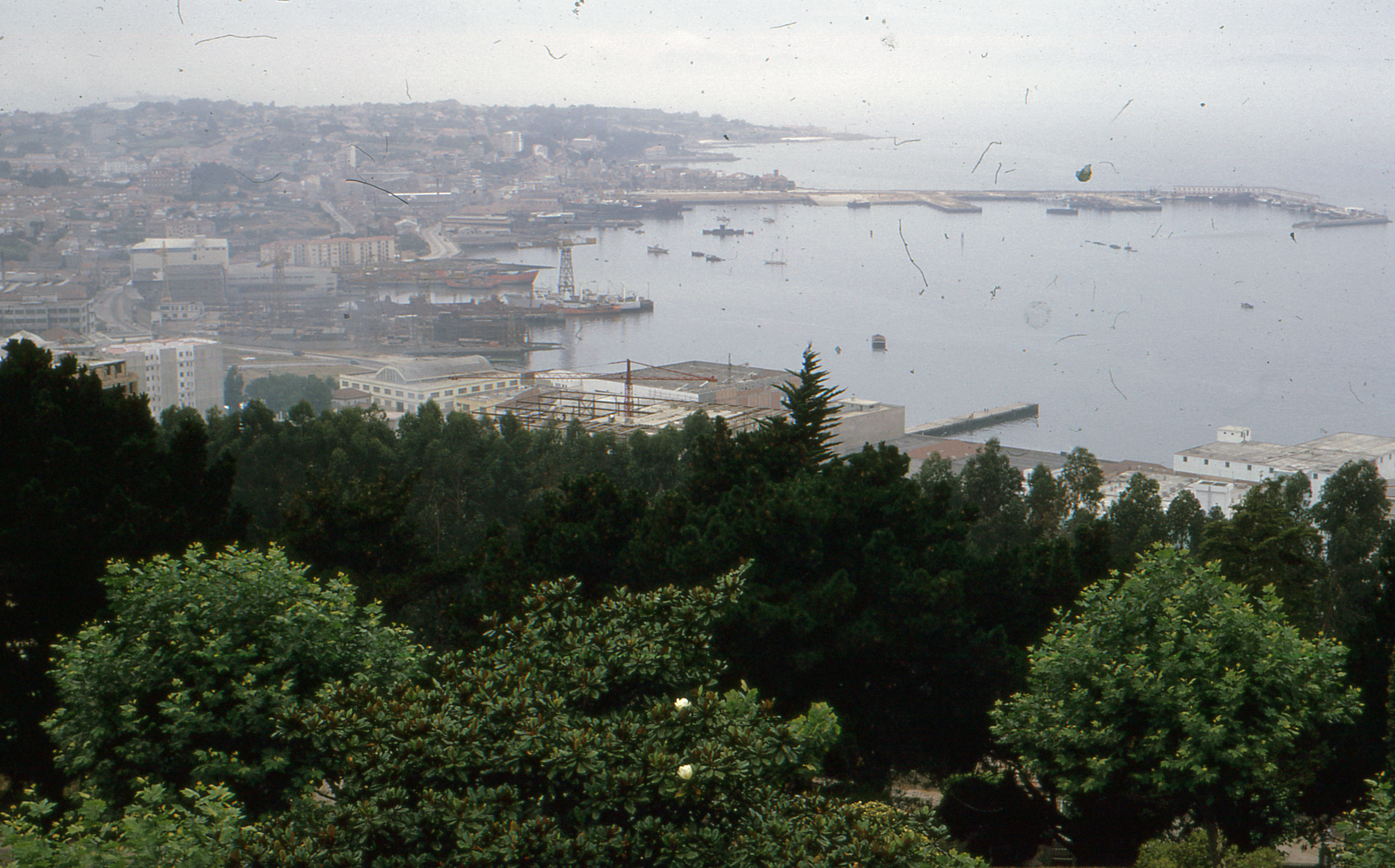 The port view from the monument to Galeones de Rande..